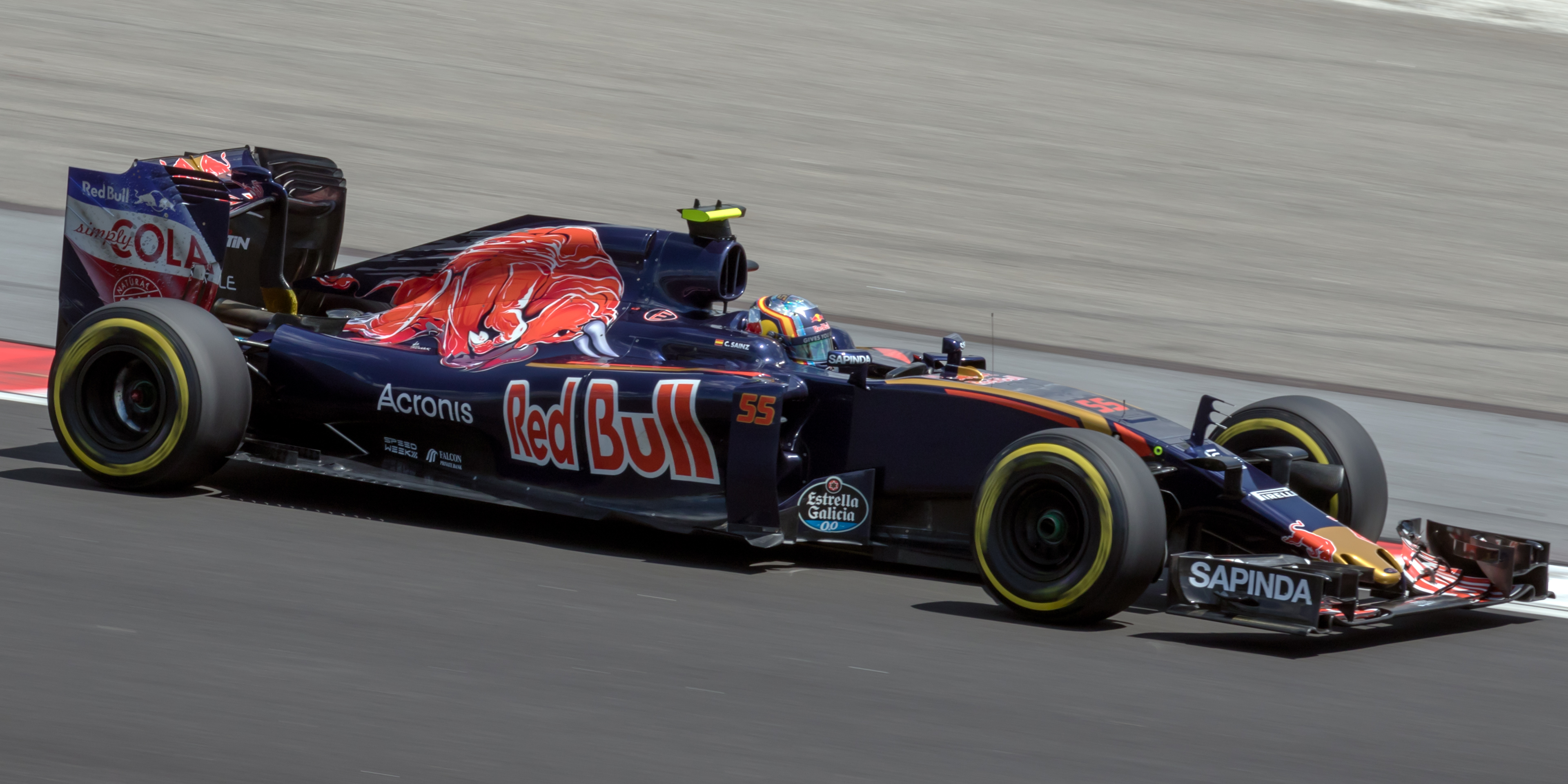 Formula One 2016 Rd.16 Malaysian GP: Carlos Sainz Jr. (Toro Rosso)